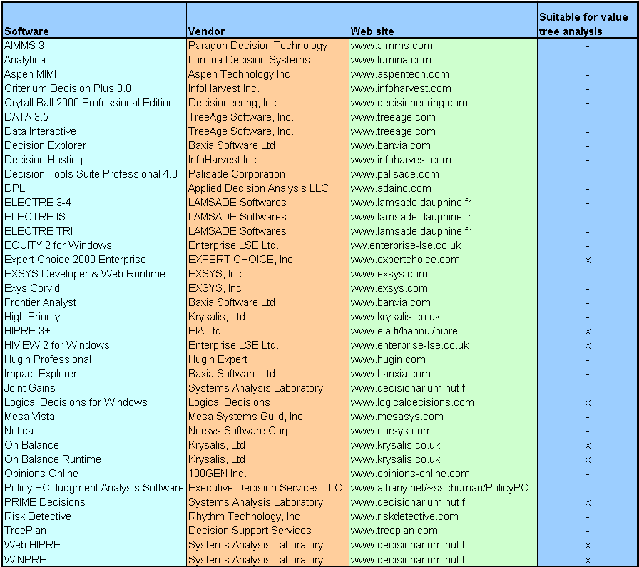 software table for VTA